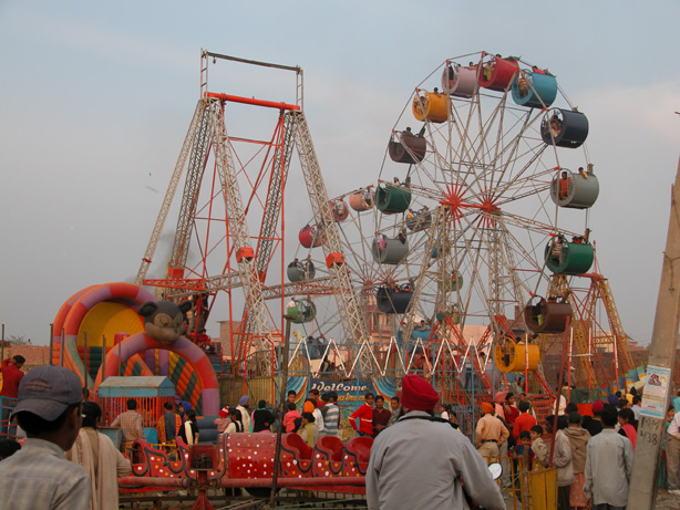 Kothe da Mela, Vallah